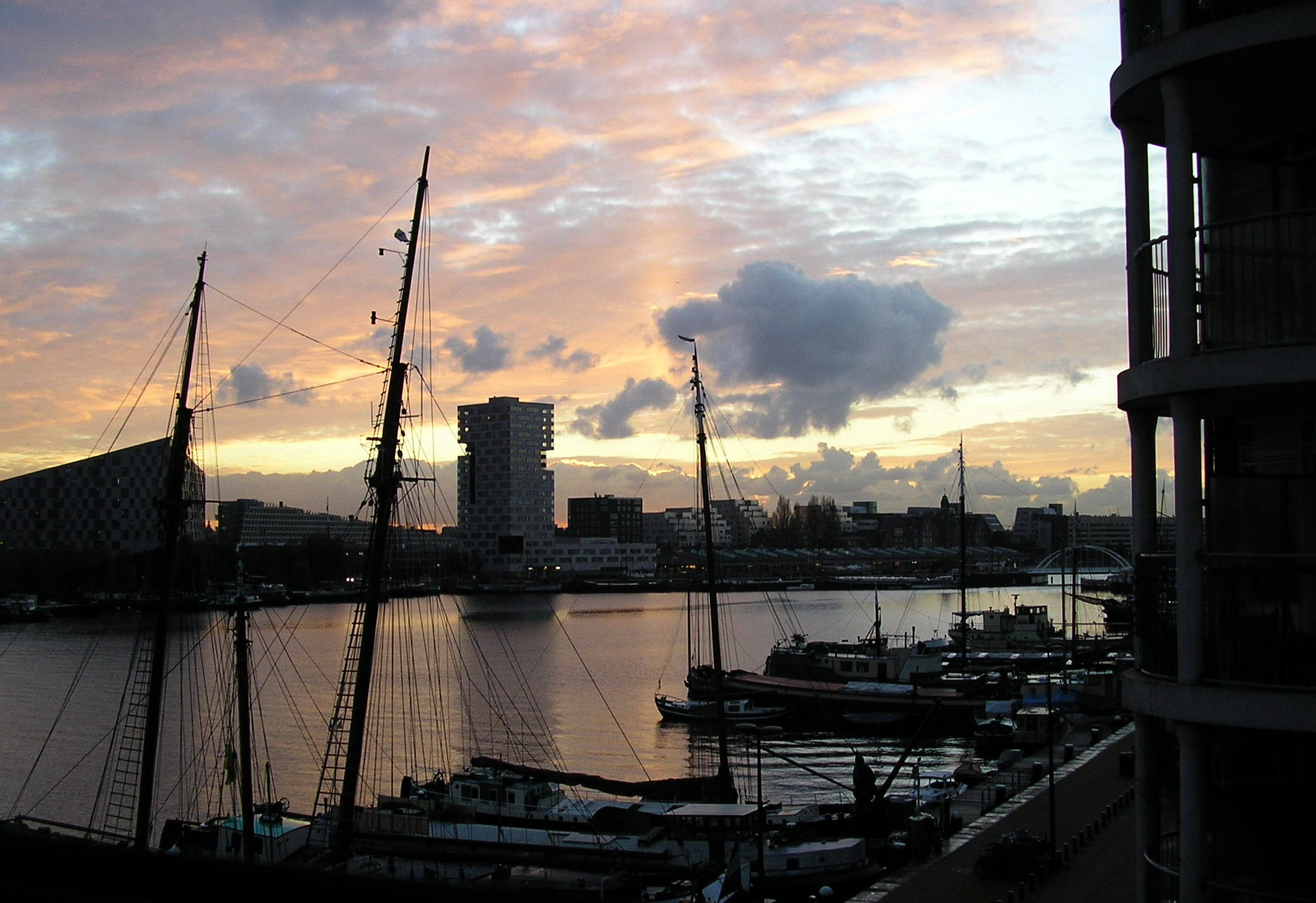 Amsterdam, the Netherlands. View from KNSM Island towards the Southwest of Sporenburg and Rietlanden, all part of the Eastern Docklands of Amsterdam. The dented building is by Frits van Dongen; the tower block and adjacent shopping mall by Willem Jan Neutelings.